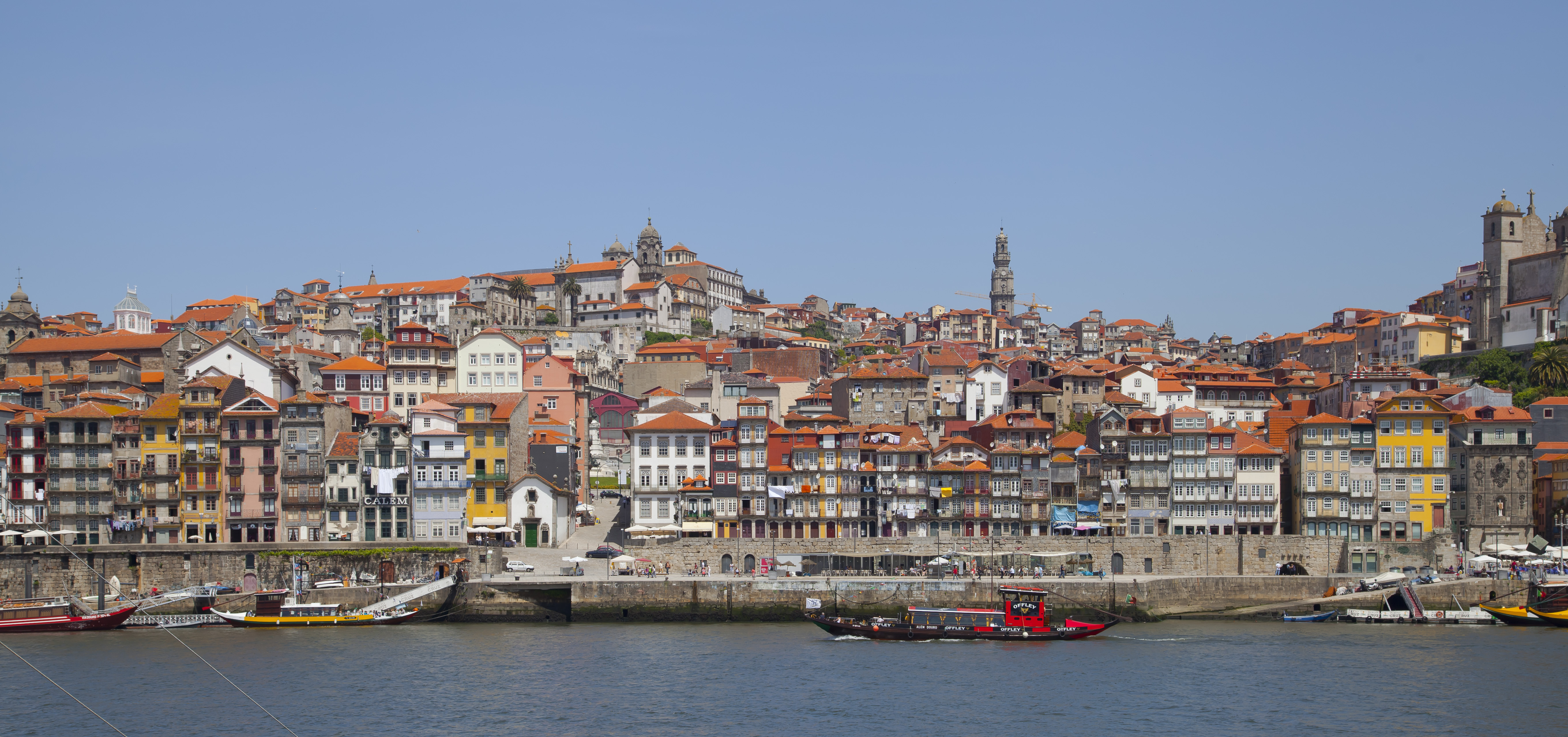 Cais da Ribeira, Porto, Portugal